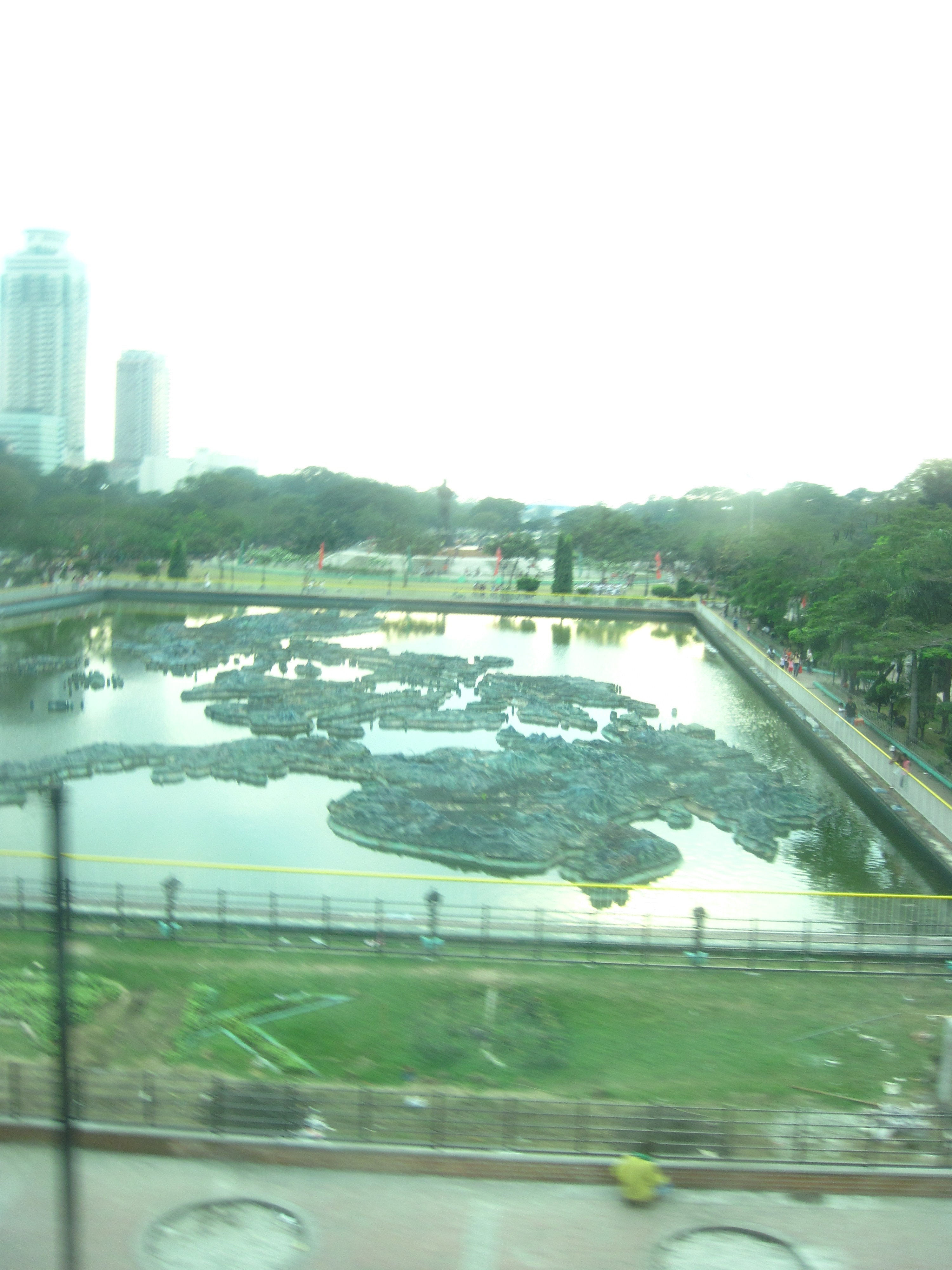 Relief map of the Philippines in Manila, Philippines